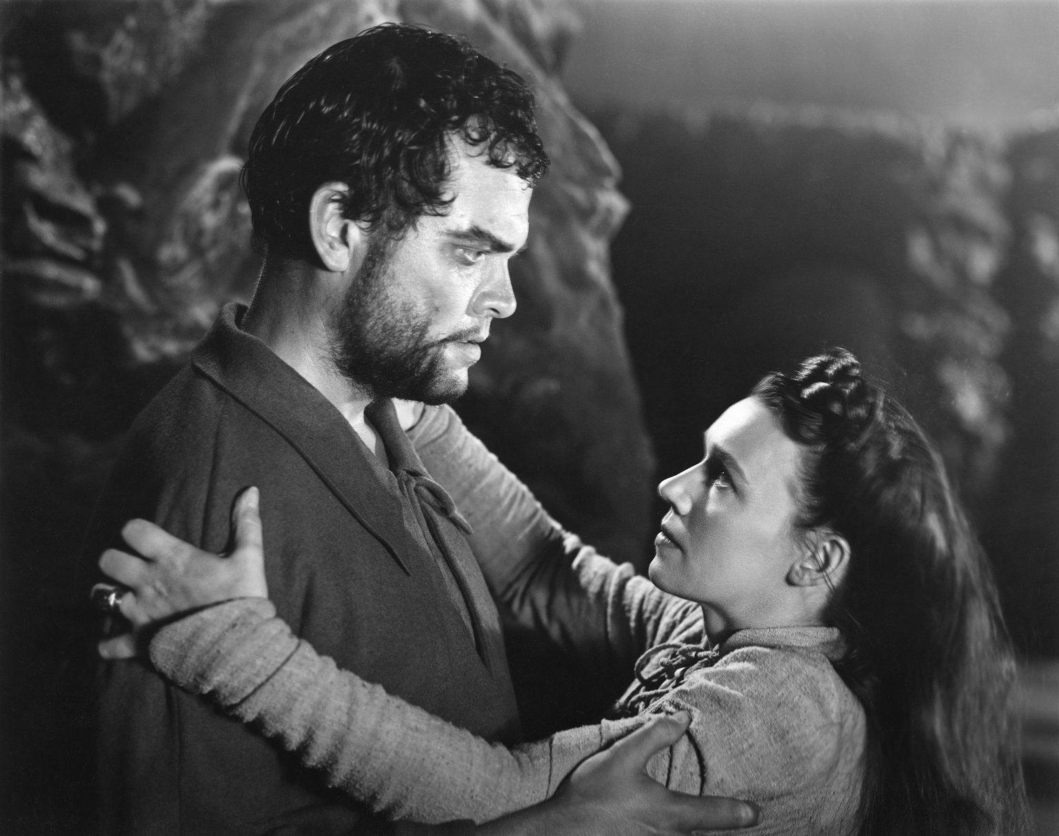 Orson Welles directed and starred as the titular Macbeth in the 1948 film, with Jeanette Nolan as Lady Macbeth.